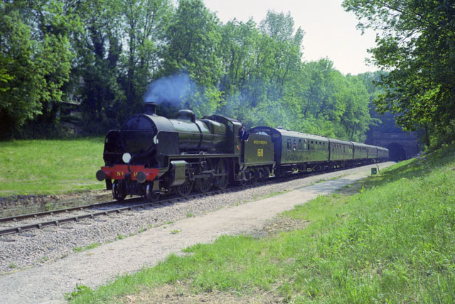 1618 and train leave Sharpthorne Tunnel, 1992, near to Sharpthorne, West Sussex, Great Britain. The train is slowing to a stop, as this was the line terminus in 1992.